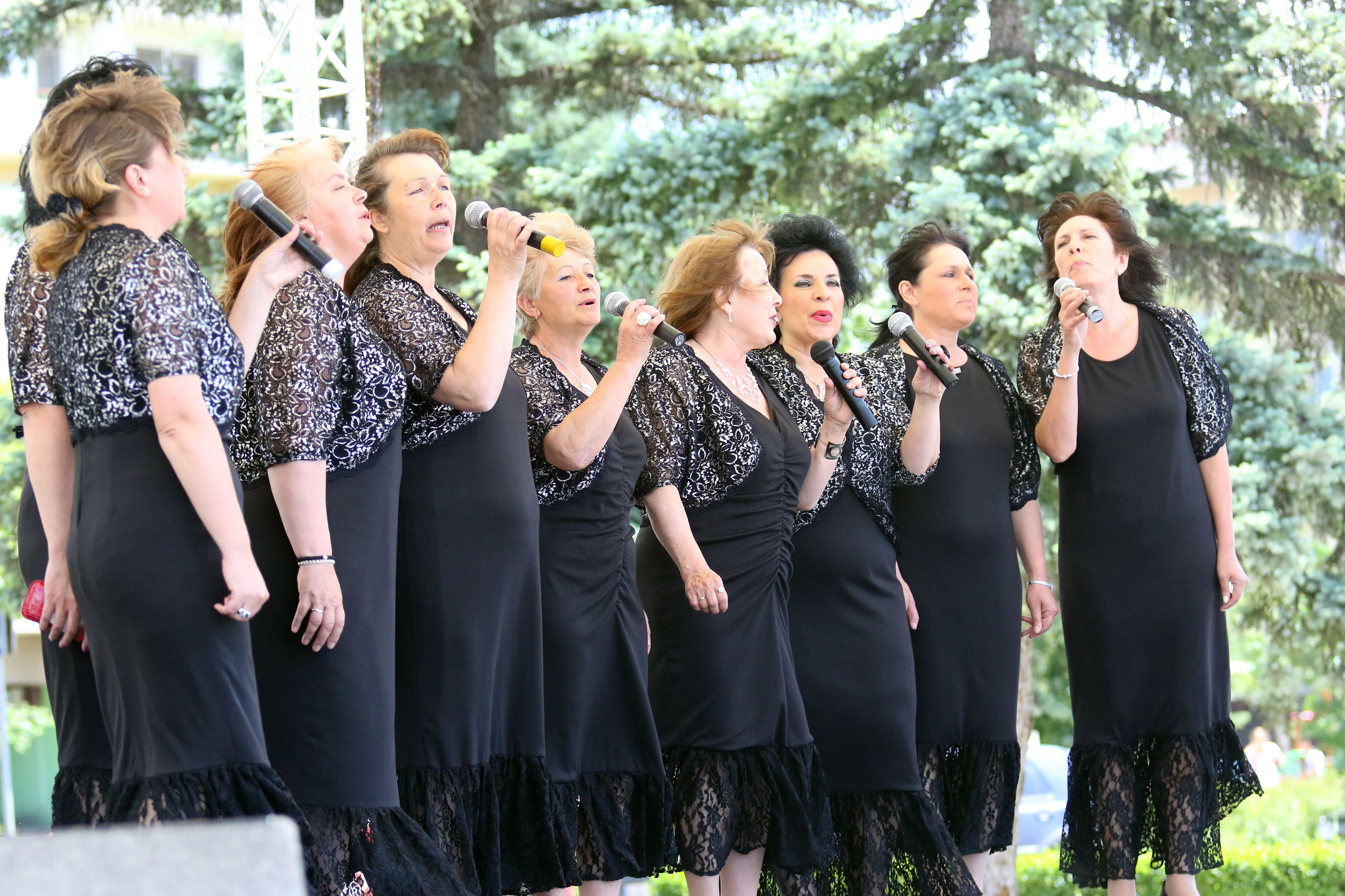 Old Town Songs Ensemble from Bulgaria This photo has been taken in the country: Bulgaria